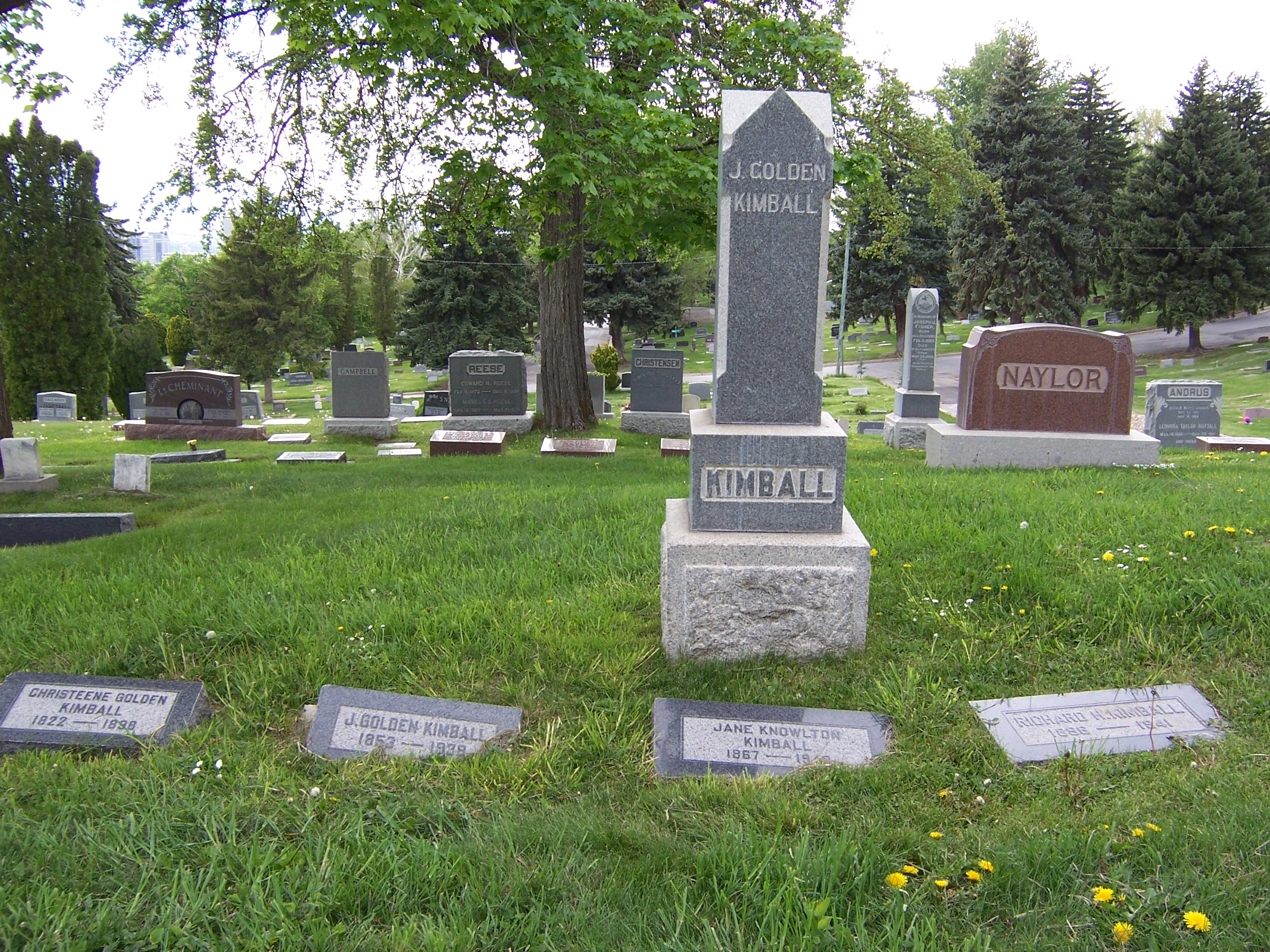 Gravesite of J. Golden Kimball